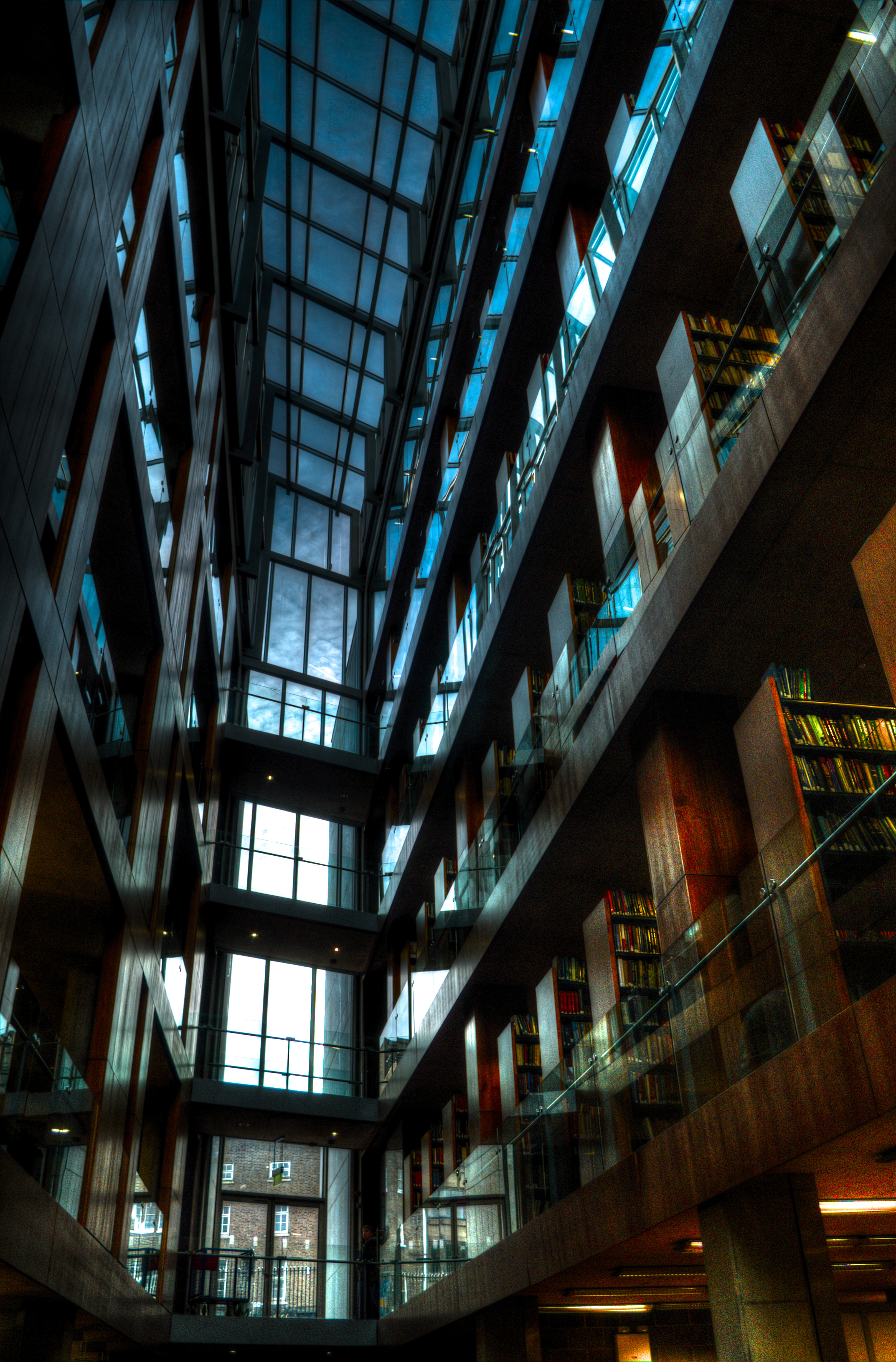 Trinity College Dublin